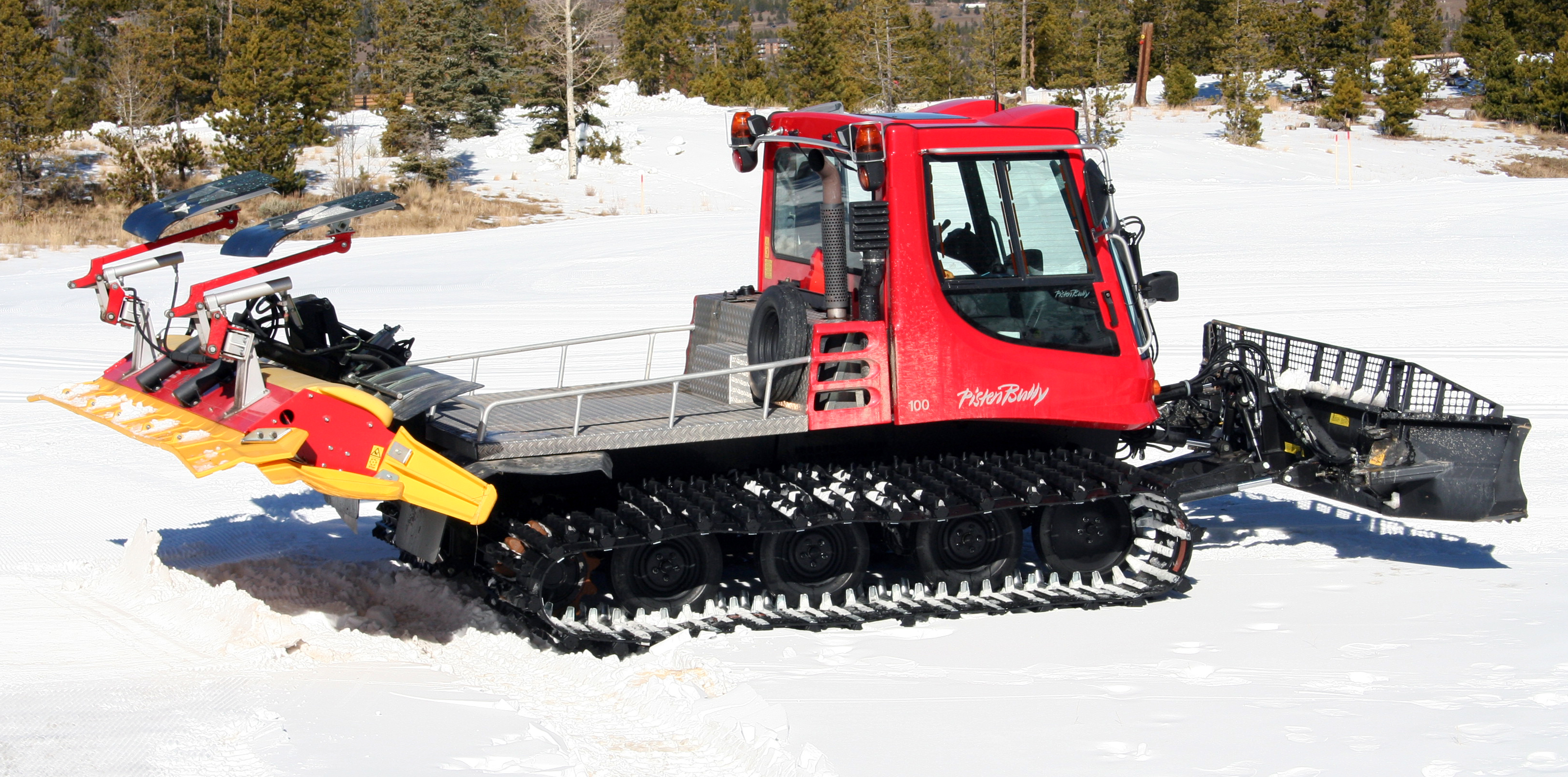 Kässbohrer PistenBully 100 - a compact snow groomer used by the Frisco Nordic Ski center.